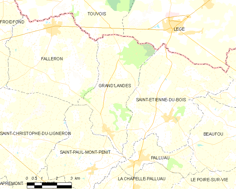 Map of French municipality Grand'Landes